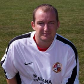 Joe Keith - Profile